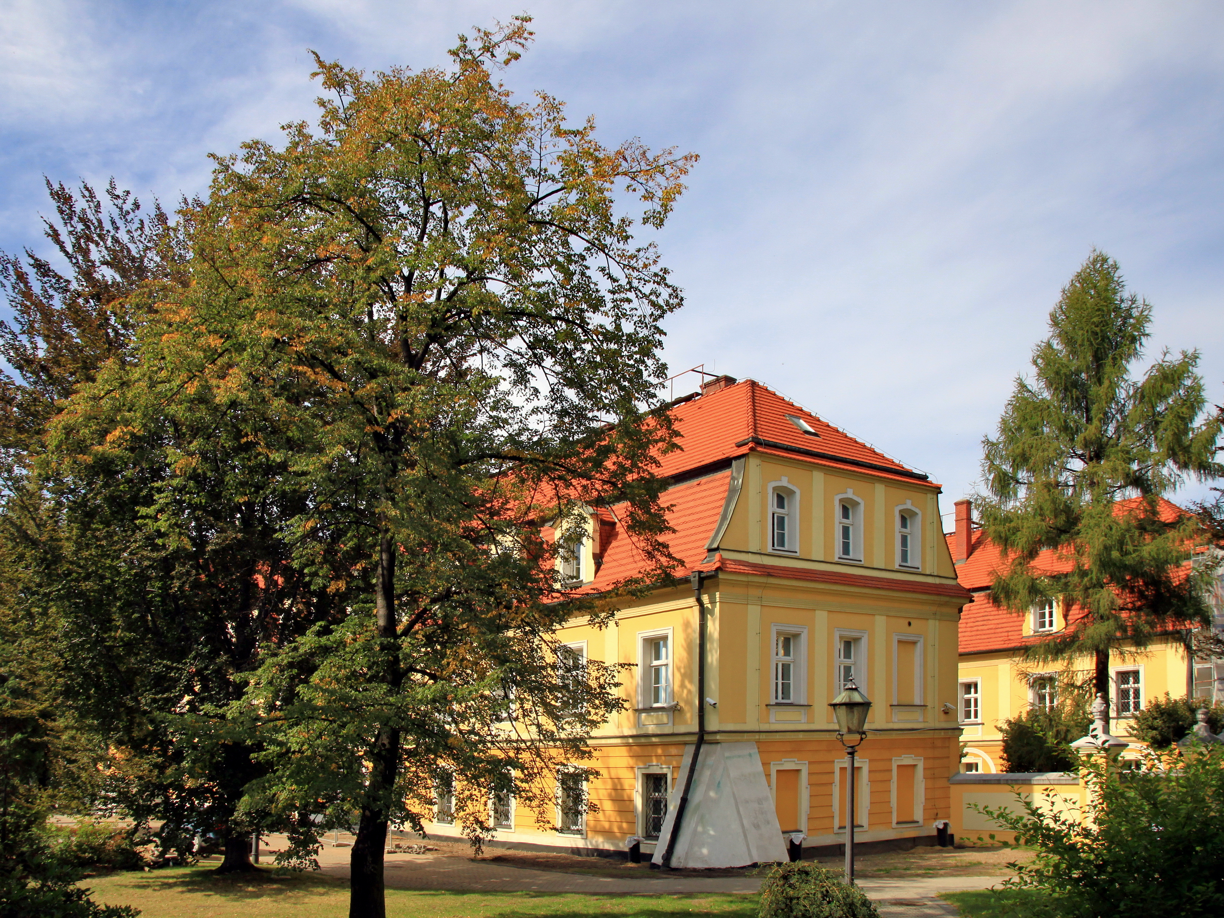 Rybnik, former castle, palace, now district court, build in 17th century, 1776-78